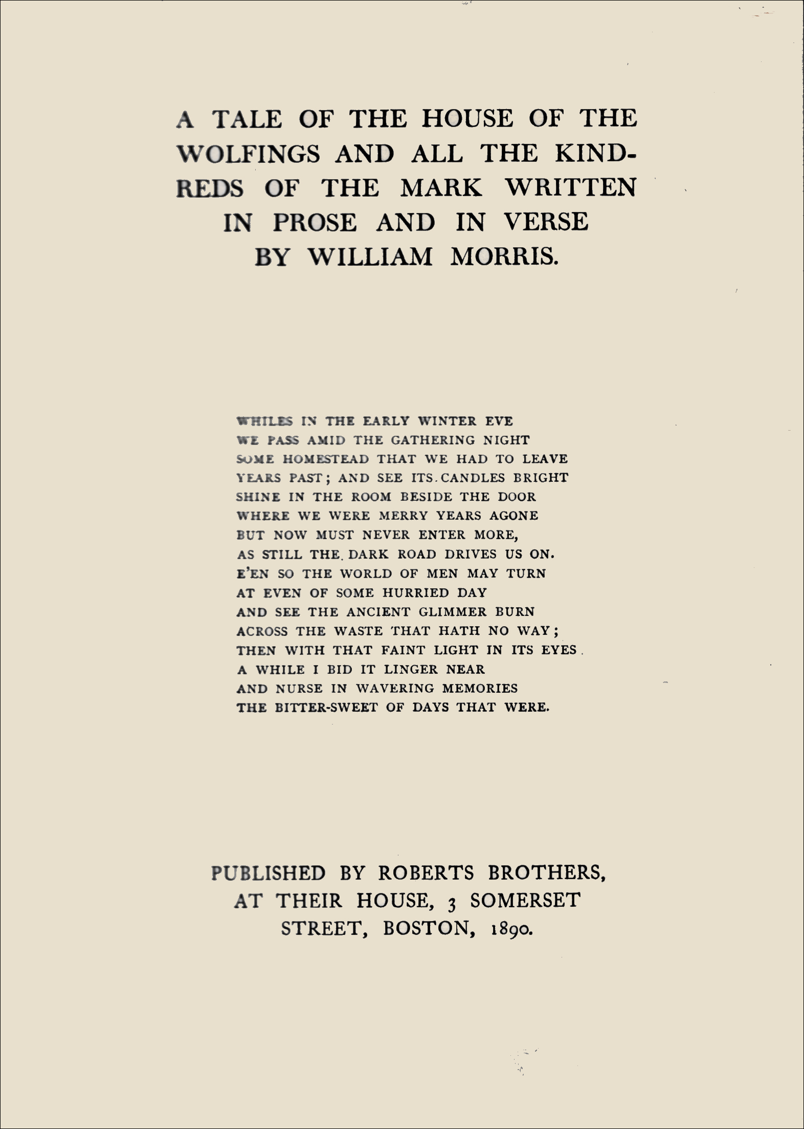 Title page of the 1890 American edition of The House of the Wolfings by William Morris.